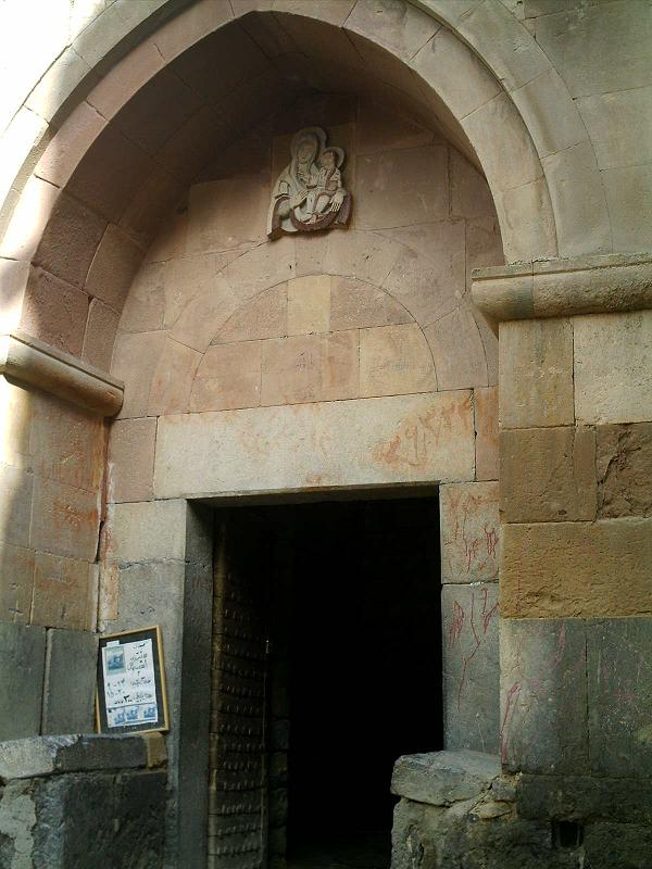 The Saint Stapanous church - Entrance